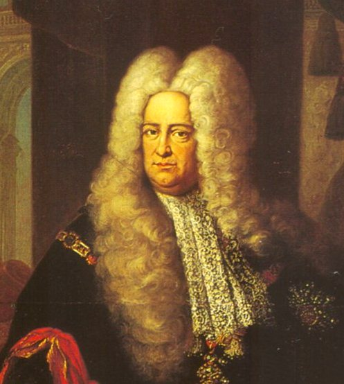 Portrait of Charles III Philip, Elector Palatine (1716-1742)